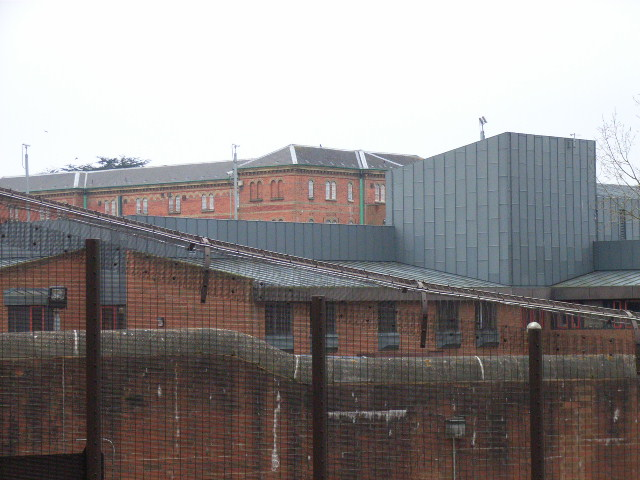 Broadmoor Hospital. The Vision of Britain map describes this is a criminal lunatic asylum. I think a secure hospital is today's terminology.